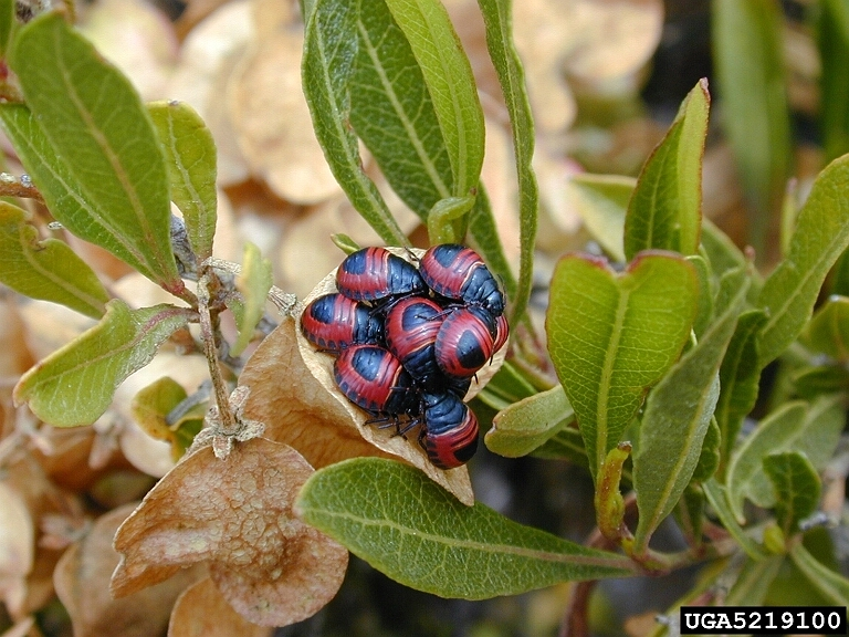 Koa bug (Coleotichus blackburniae) (cluster of instars) ; family Scutelleridae